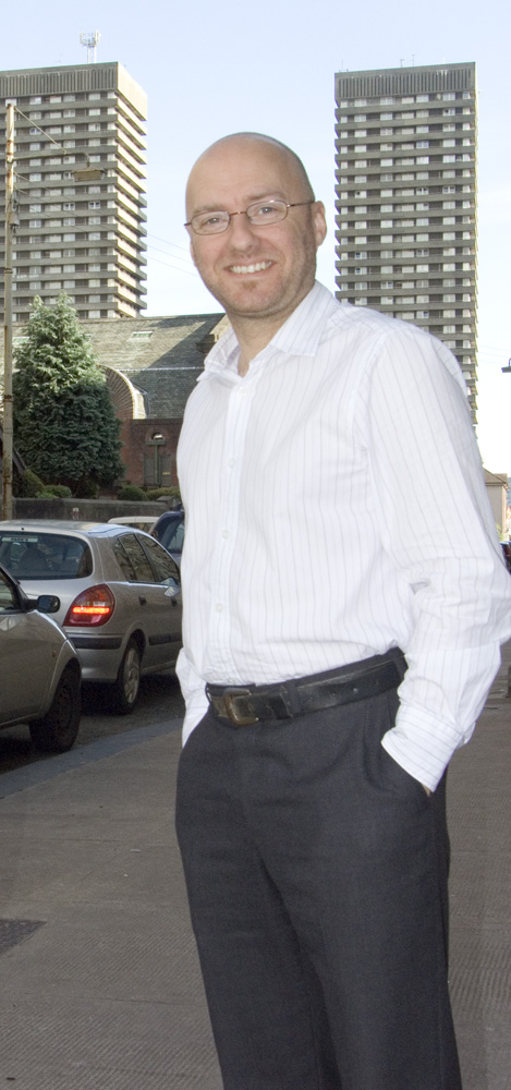 Patrick Harvie MSP in Dennistoun, Glasgow.